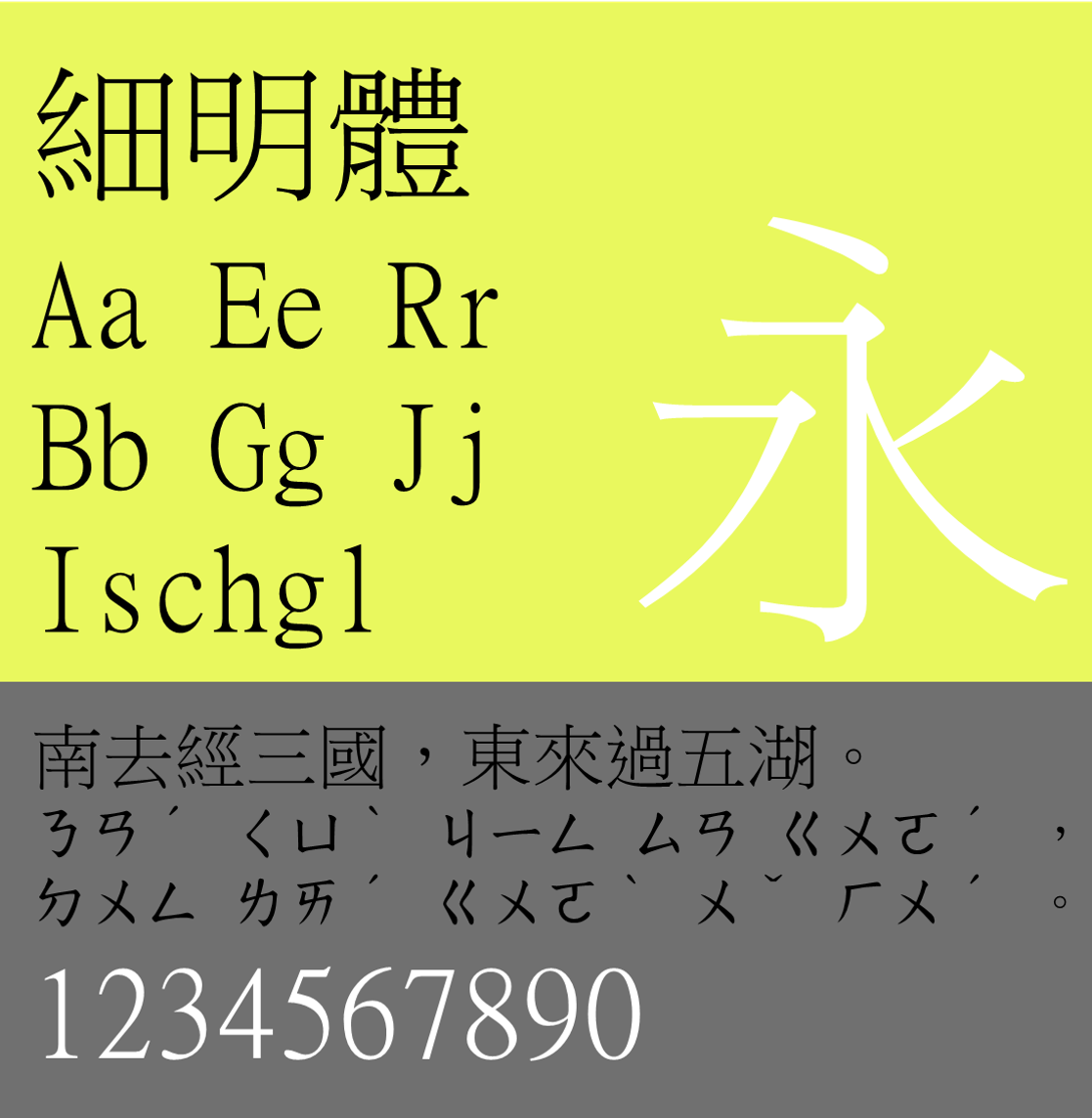 Sample of MingLiU font, displayed is MingLiU v7.03 (fixed-width version). Shown in picture are Latin alphabets “AaBbEeGgJjRr”, “Ischgl”, Traditional Chinese “南去經三國，東來過五湖。” with its bopomofo, and numerals 1-0.